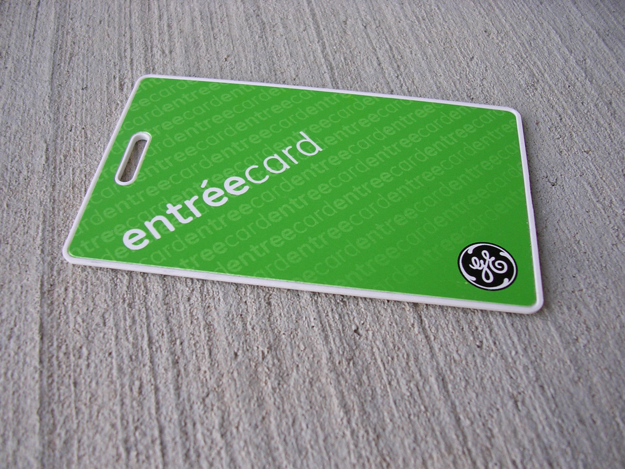 Proximity badge.